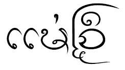 Lanna script – Mae Charim is a district (Amphoe) in the eastern part of Nan Province, northern Thailand.